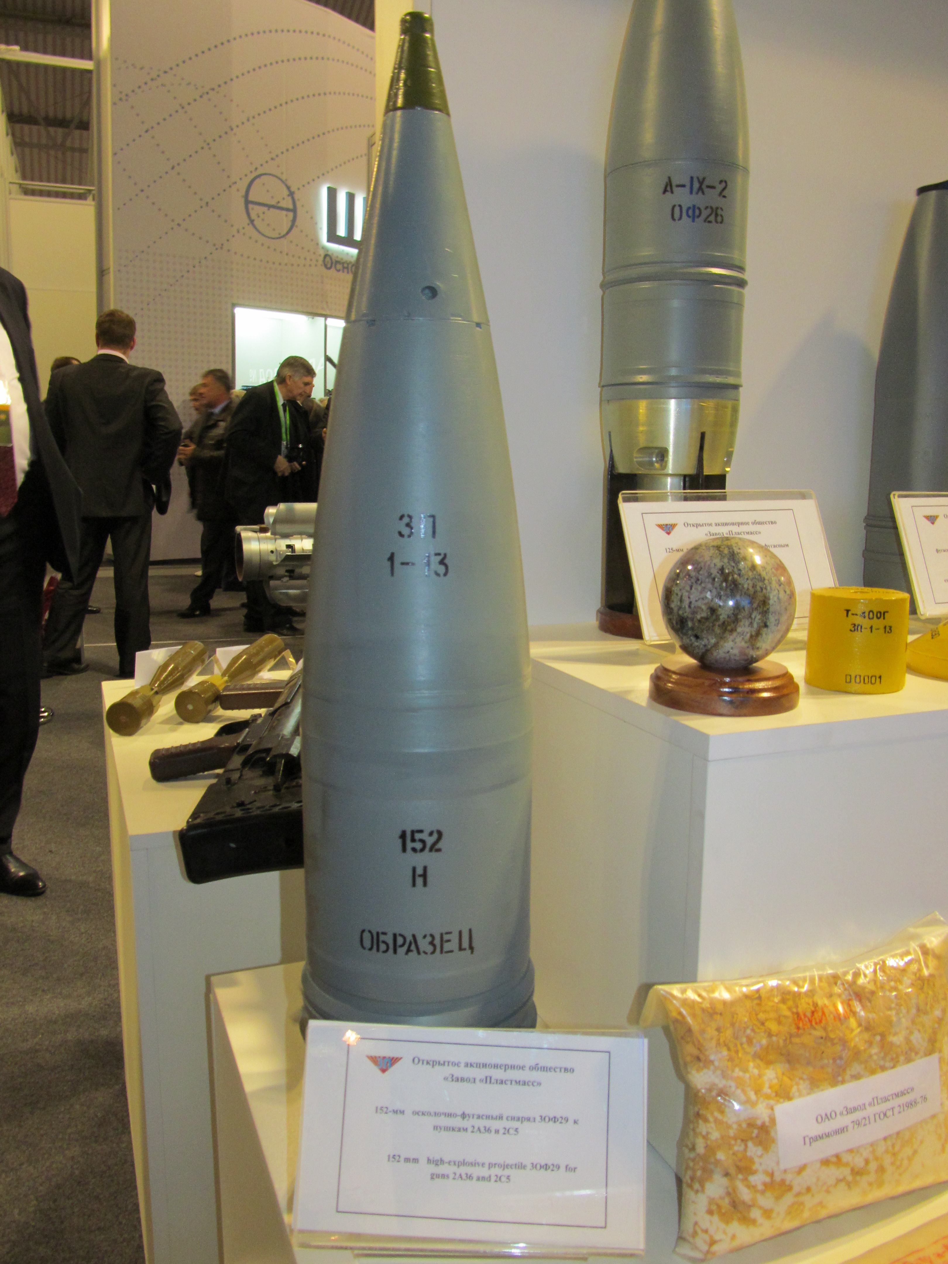 3OF29 high explosive round for 2A36 and 2S5 artillery systems on Russia Expo Arms 2013.